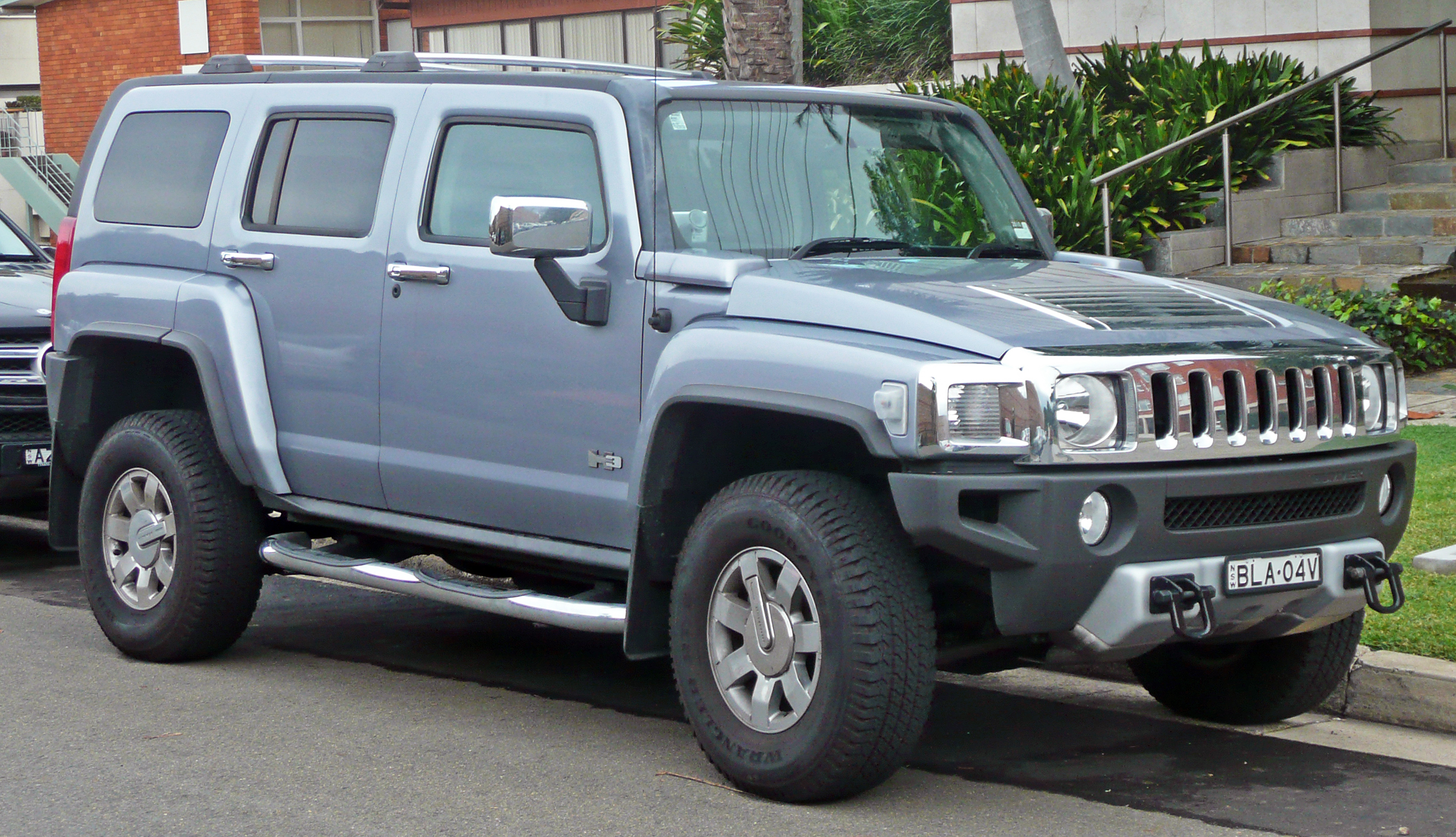 2009 Hummer H3. Photographed in Cronulla, New South Wales, Australia.